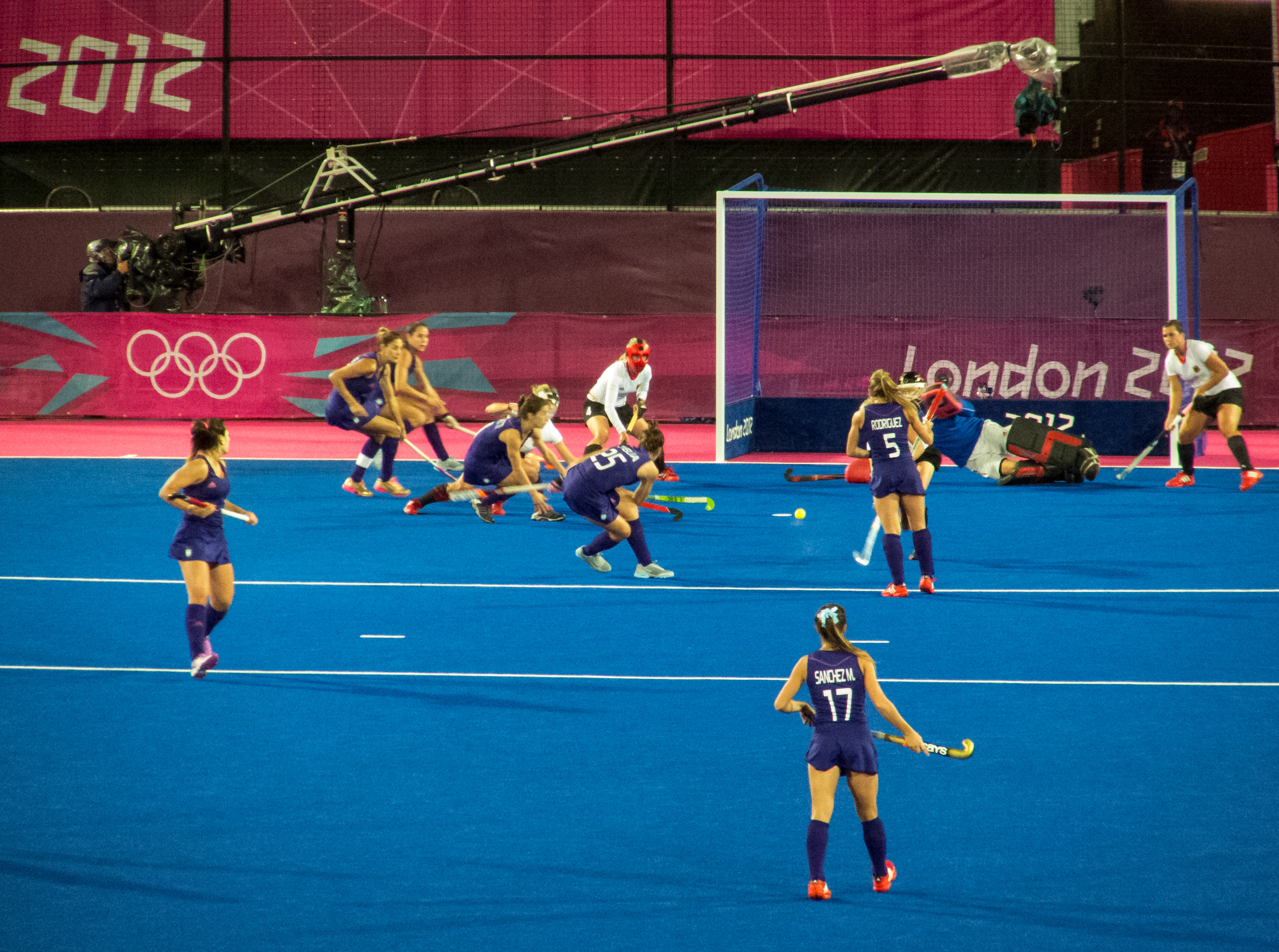 A penalty corner routine against Germany.